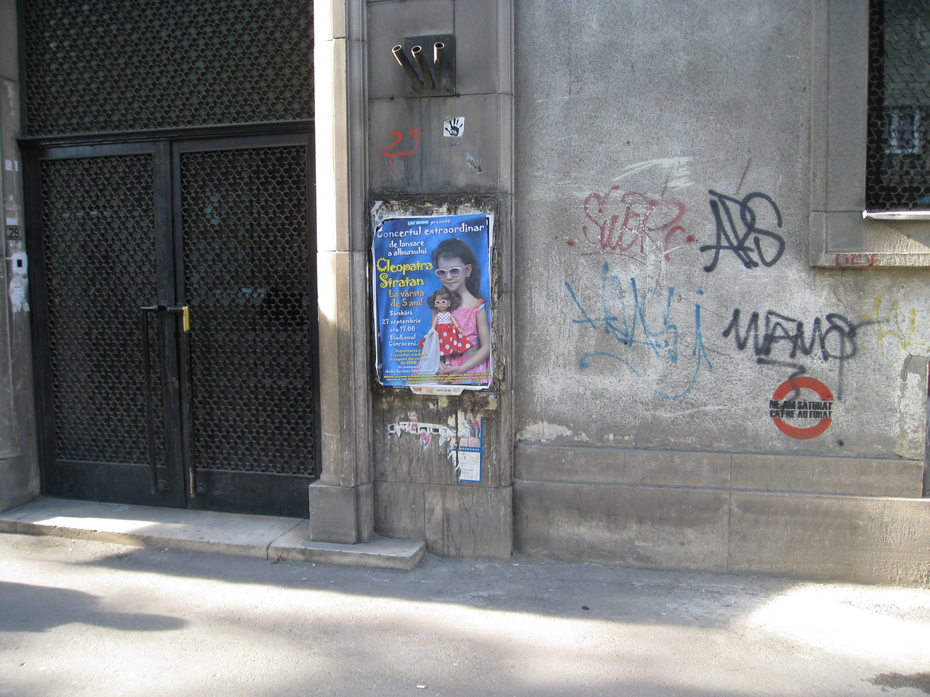 Poster of Cleopatra Stratan in Bucharest, Romania